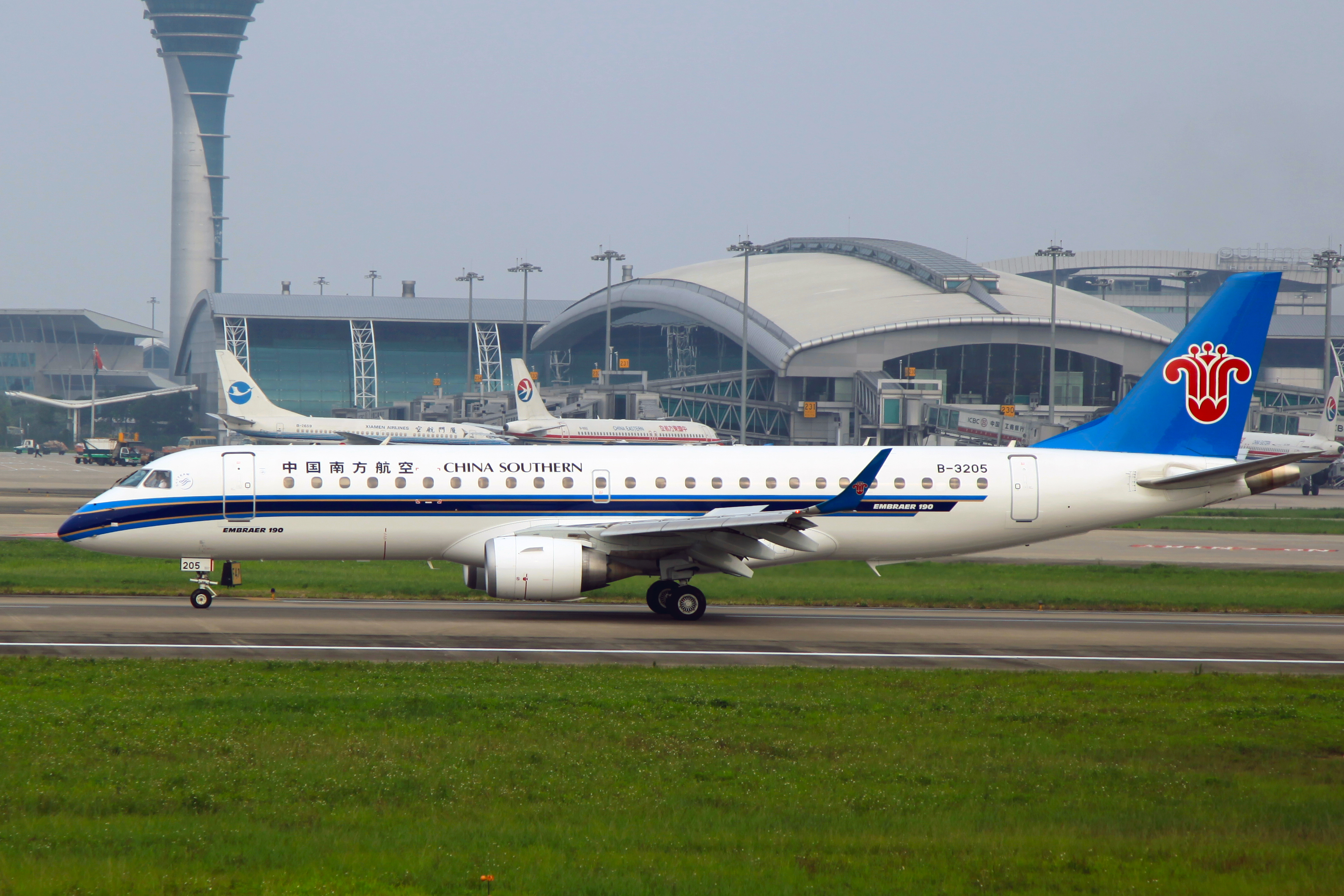 China Southern Airlines ERJ-190LR B-3205 @ Guangzhou Baiyun International Airport